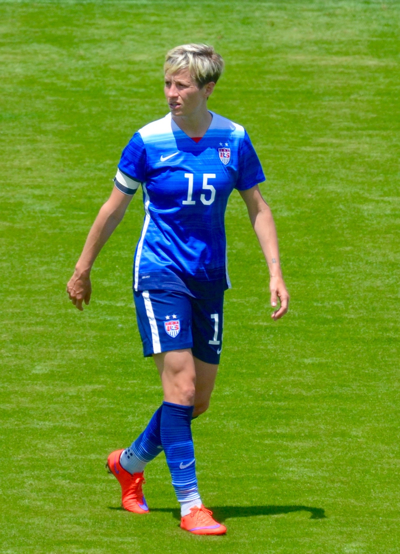 Megan Rapinoe playing for the US Women's National Team in San Jose, California on 10 May 2015.